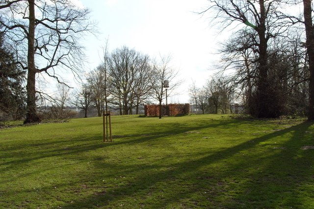 Elmdon Park Behind Land Rover Factory, Solihull.